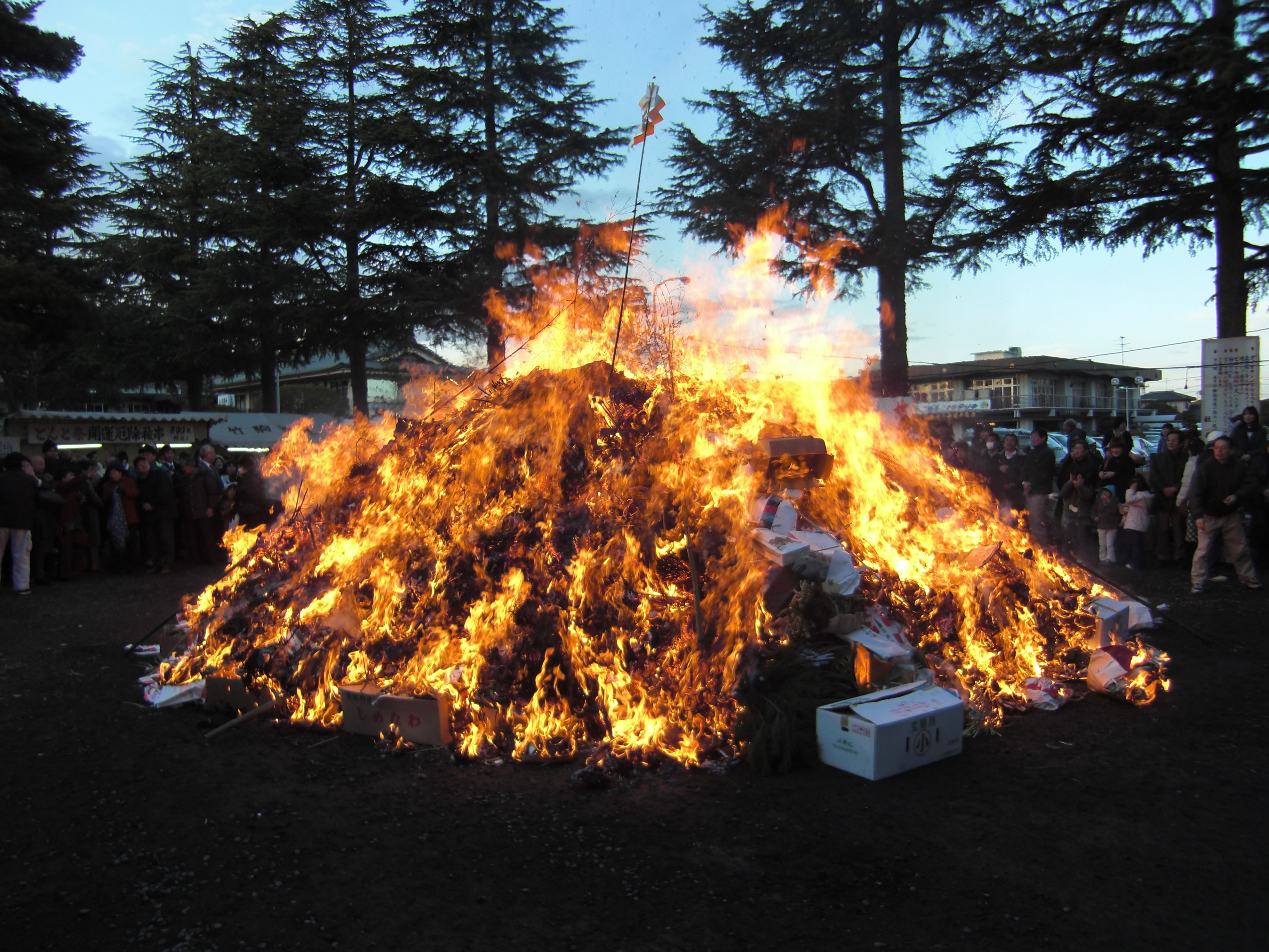 Takekoma Shrine Donto-sai Festival in Iwanuma, Miyagi pref., Japan.